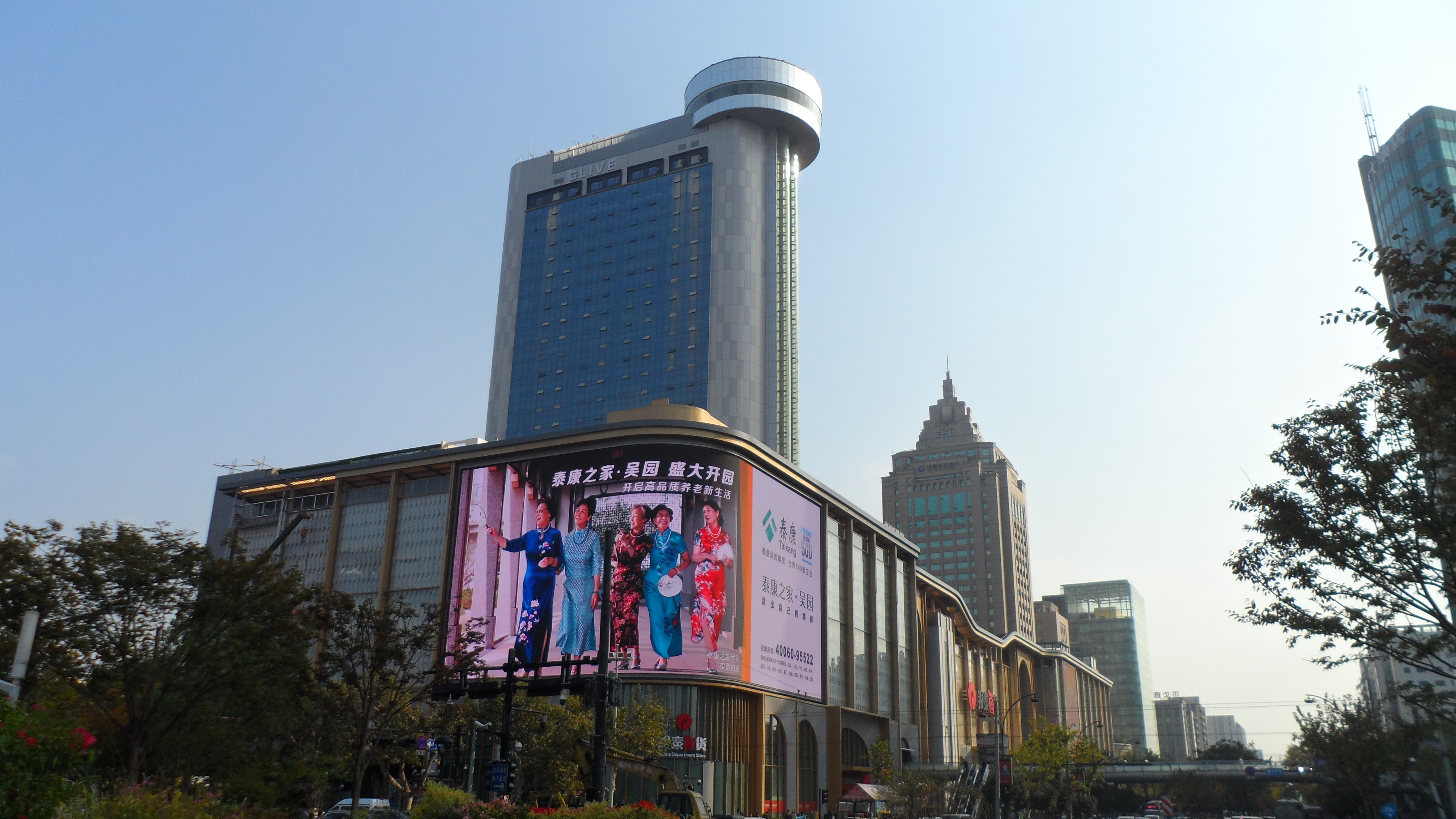 Wulin Square